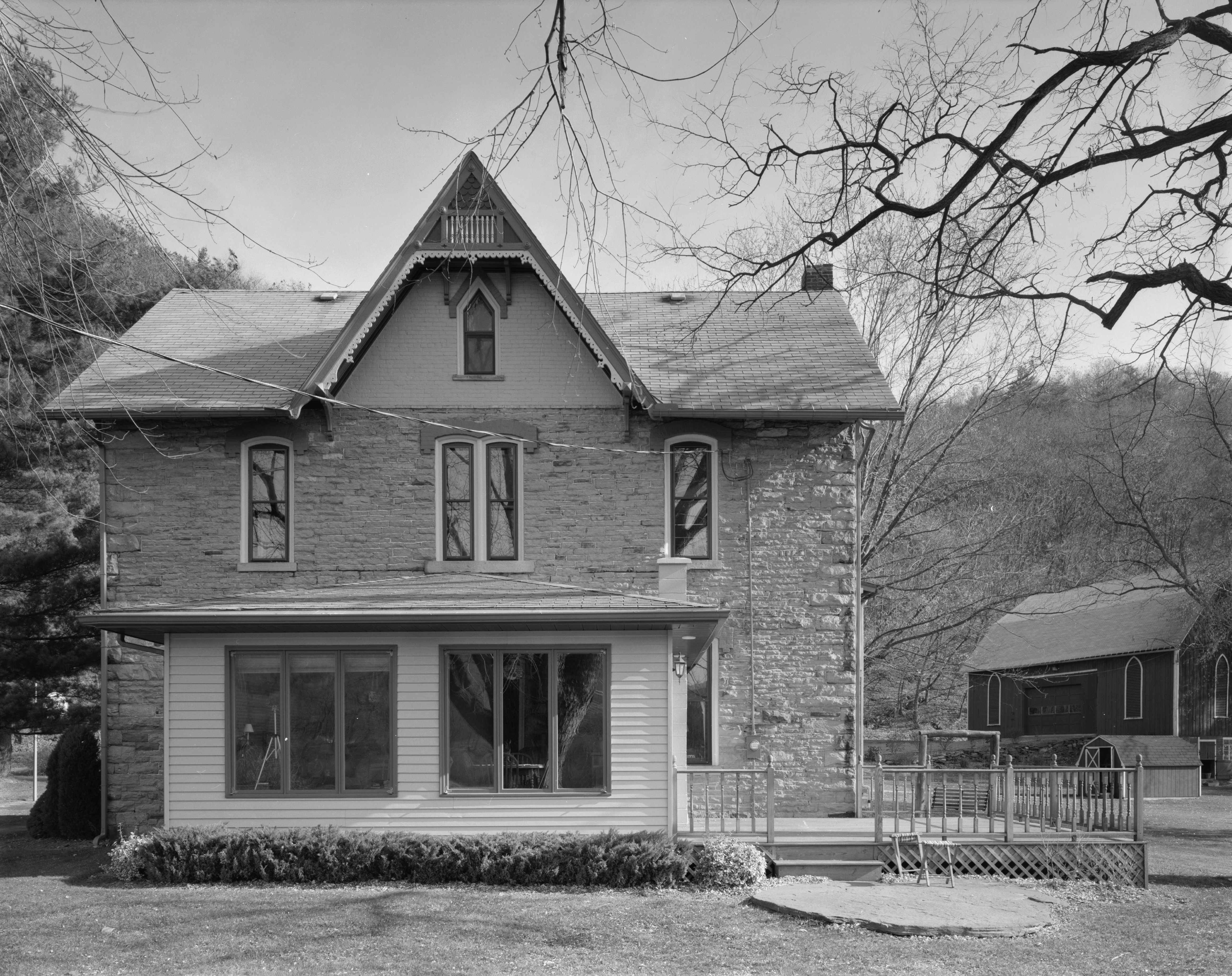 Front of the farmhouse at the Isaac A. Packer Farm, located on Farrandsville Road along the West Branch of the Susquehanna River in Woodward Township, Clinton County, Pennsylvania, United States. Built in 1885, this house is listed on the National Register of Historic Places.